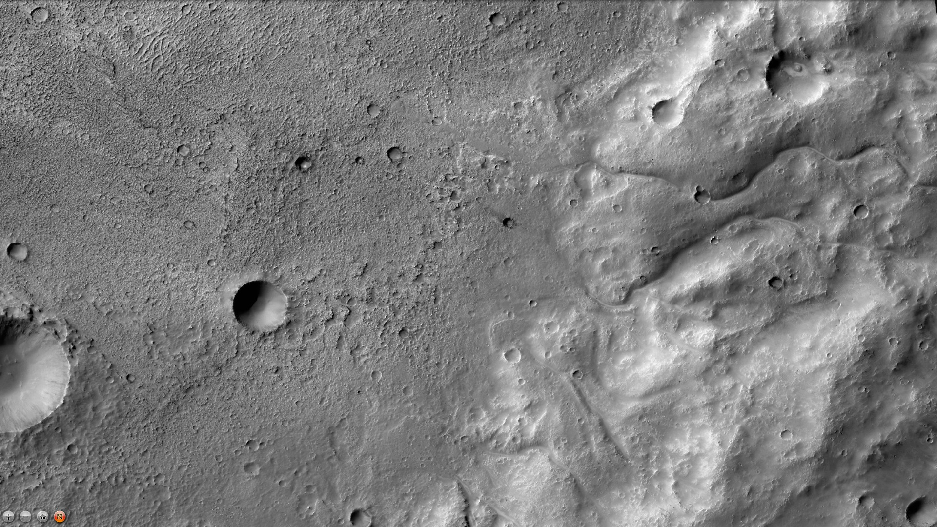 Channels along eastern part of Schaeberle Crater (Mars) and floor, as seen by CTX.